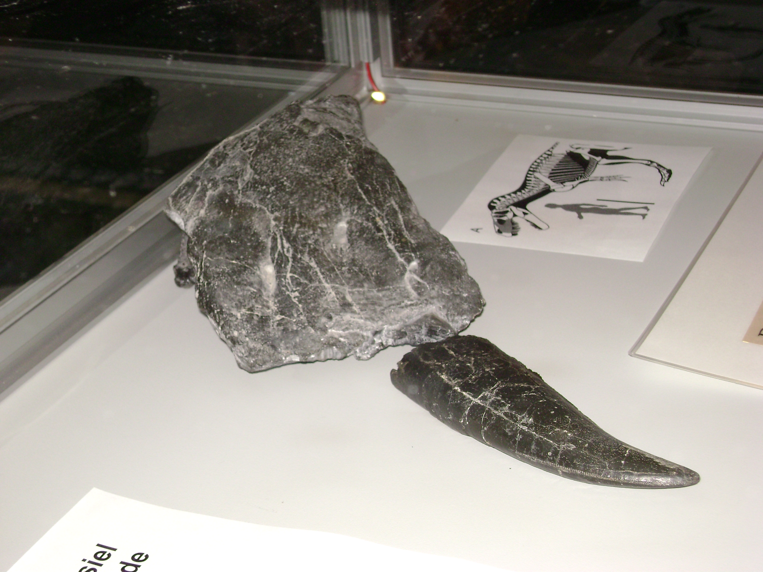 The holotype of Torvosaurus gurneyi from the left side